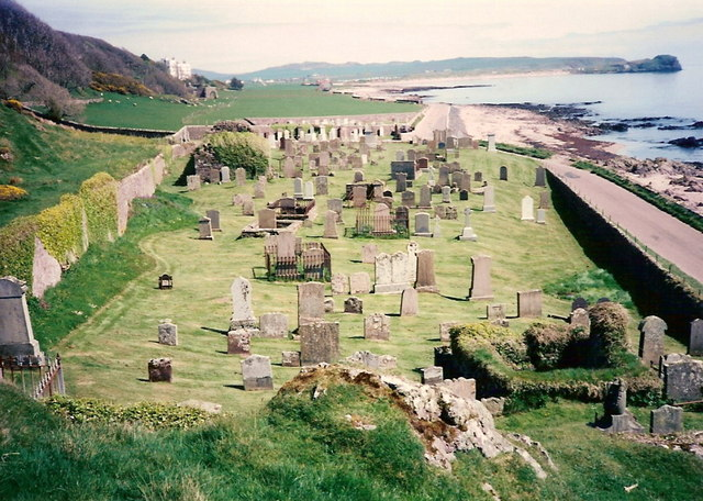 Kilcolmkeil Churchyard St Columba's Chapel at upper left of churchyard.